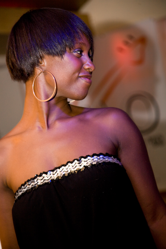 Photograph of Michelle Gayle.